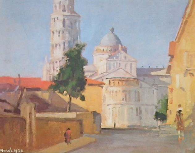 Giovanni March, Piazza dei Miracoli, 1958